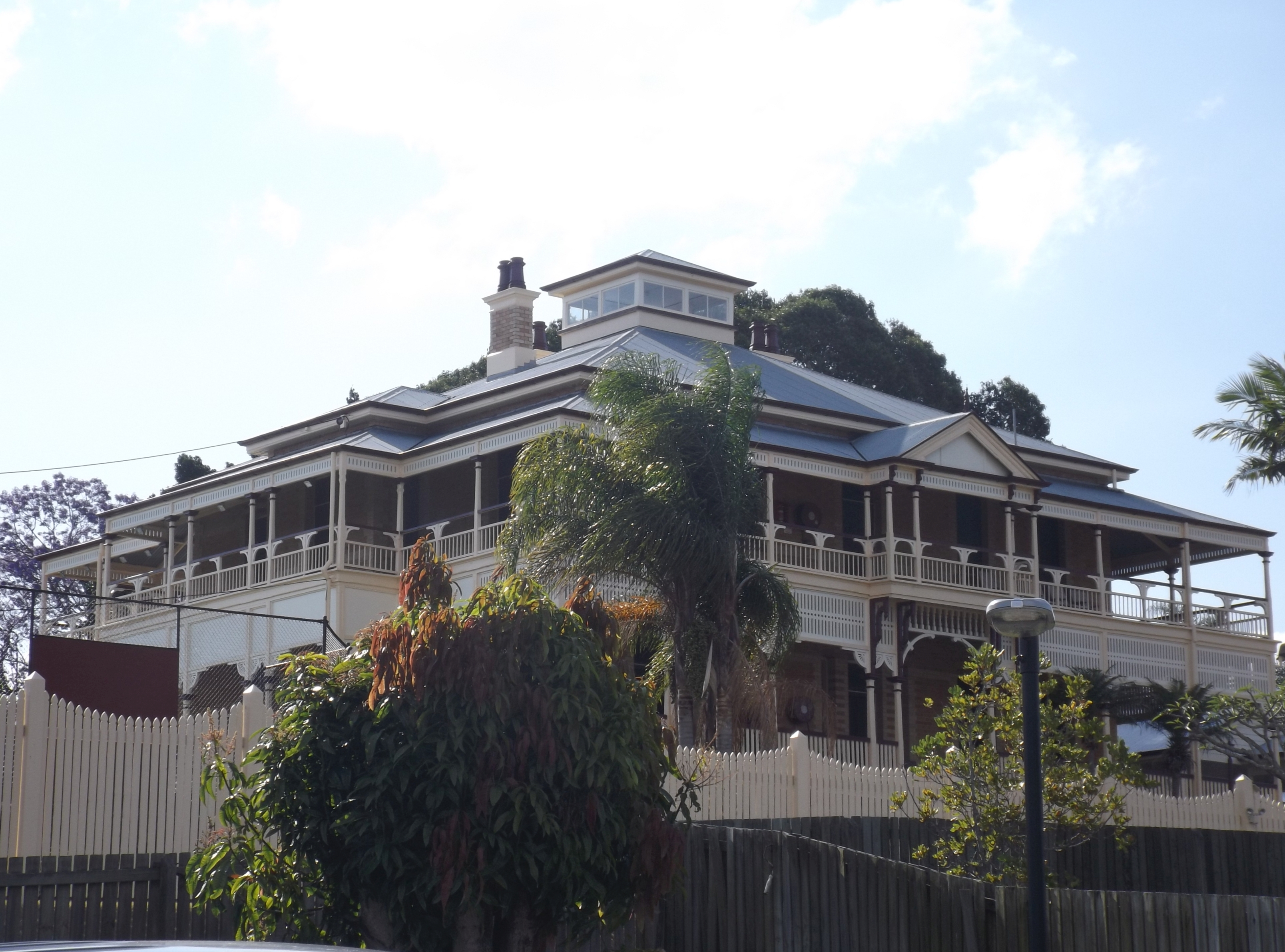 Photo of the Fairy Knoll residence in Eastern Heights, Ipswich City, Queensland, Australia.